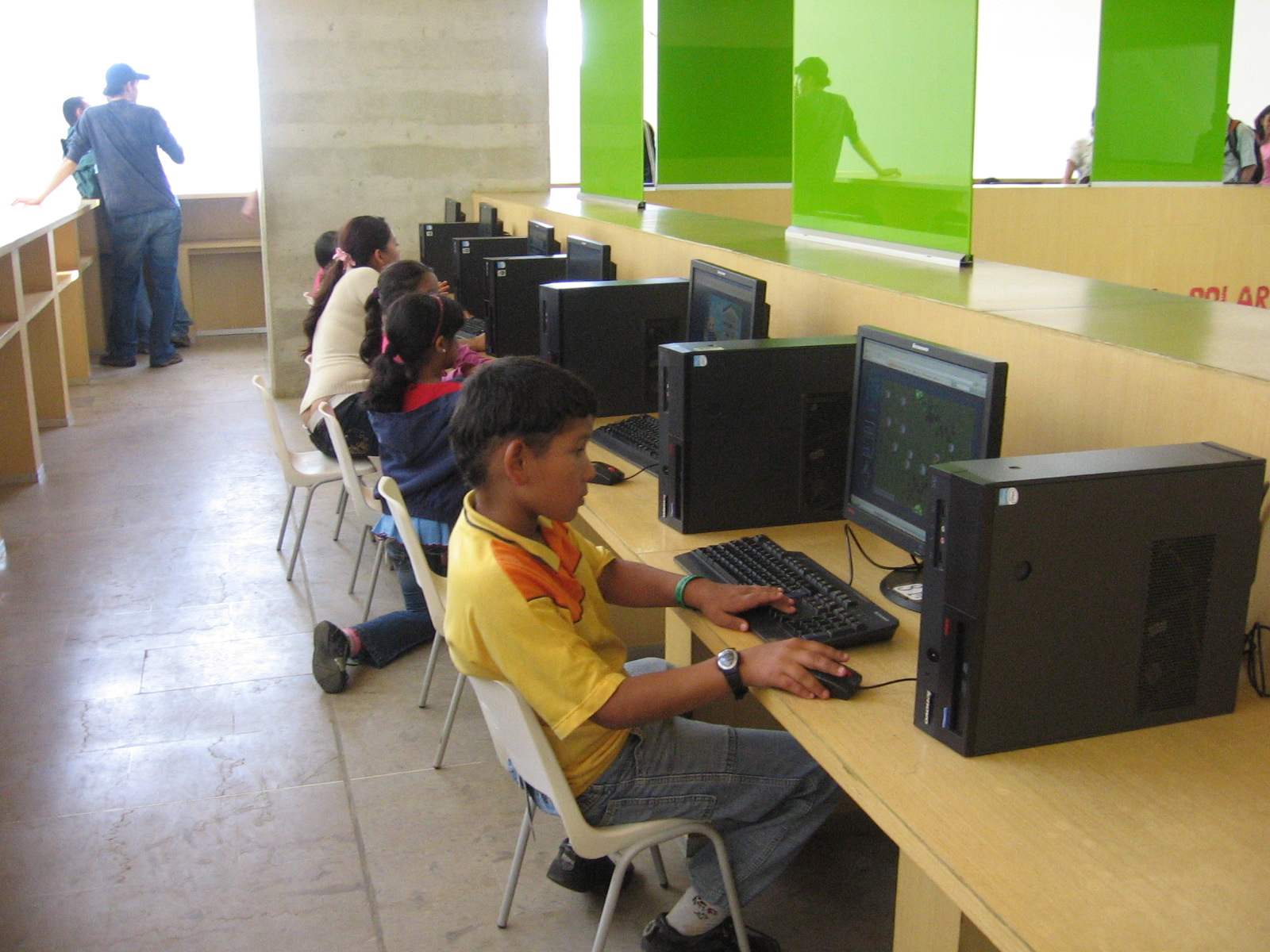 Children at the computer room of the Plaza España Library in Barrio Santo Domingo Savio, North-East of Medellín.